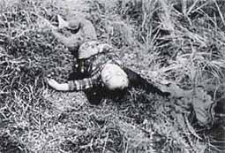 A child of Phong Nhi village killed by South Korean Marines, the Blue Dragons in Phong Nhi village, Quang Nam Province, Vietnam on February 12, 1968. Photo by Corporal J. Vaughn, Delta-2 Platoon, U.S. Marine.[1][2][3]